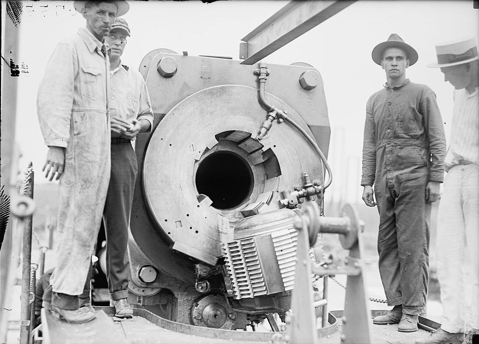 Photograph of US Navy 14-inch Mark 4 gun on Mark II railway mounting, with crew, showing open breech. Indian Head, MD. Navy Proving Ground. See also other photos from same shoot : File:USN 14 inch railway gun Mk II open breech inspection 1919 LOC 12661.jpg File:USN 14 inch naval gun Mk II right side 1919 LOC 12663.jpg File:USN 14 inch railway gun Mk II firing right rear view 1919 LOC 12662.jpg File:USN 14 inch railway gun firing left rear 1919 LOC 12667.jpg